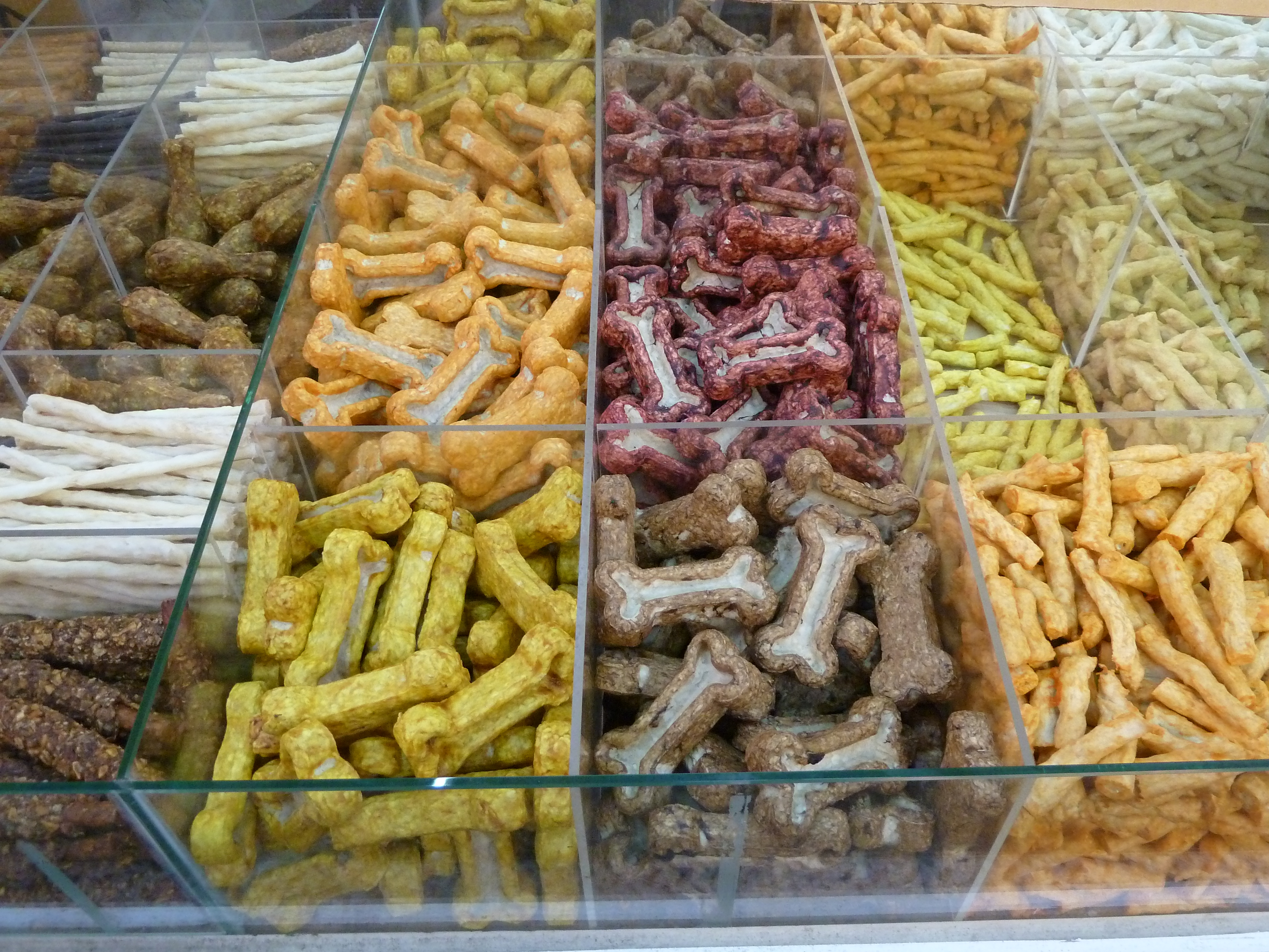 Chatuchak Weekend Market, Bangkok, Thailand